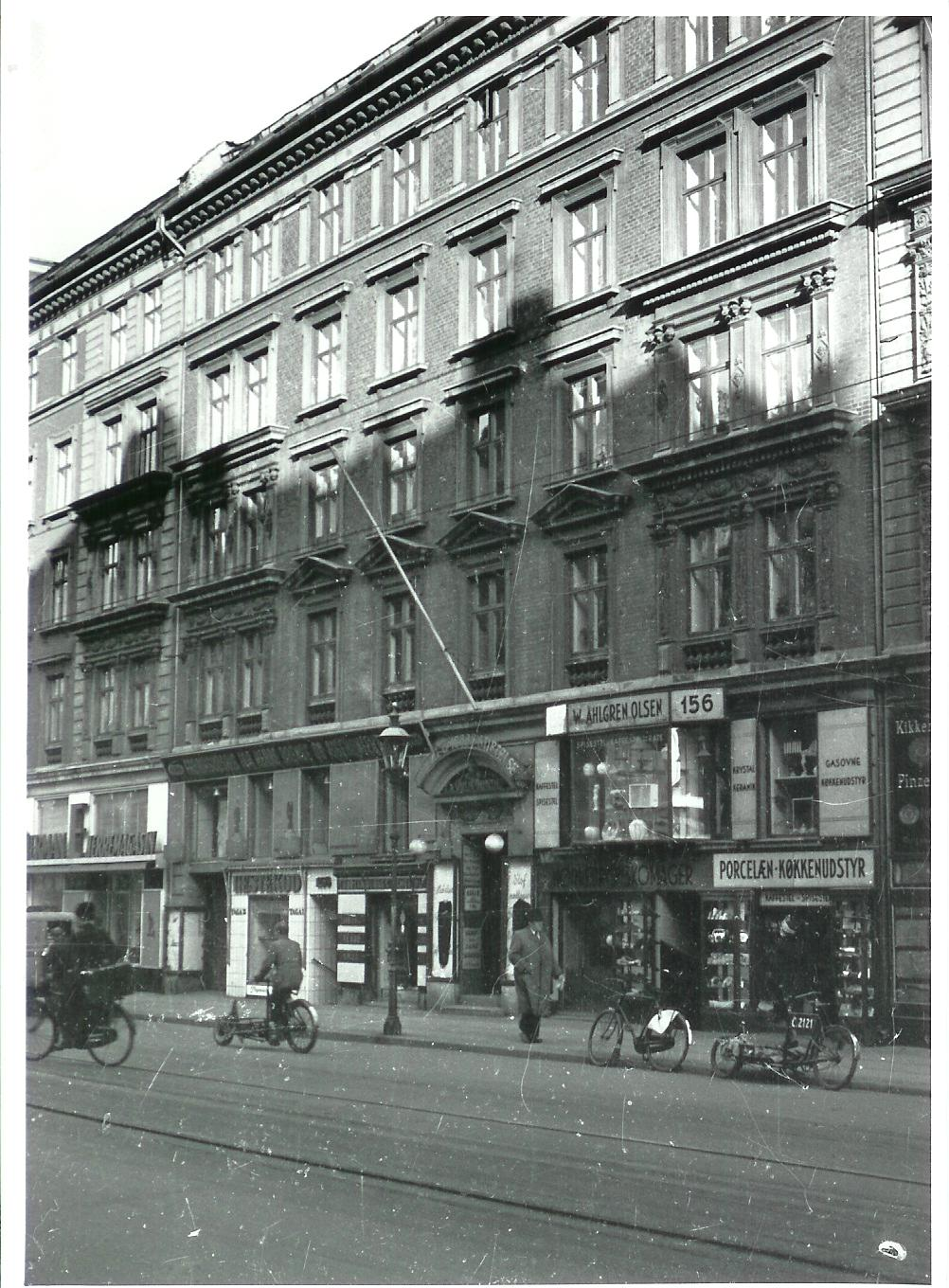 Se flere billeder her: Download and rights: More about The Museum of Danish Resistance (Frihedsmuseet)